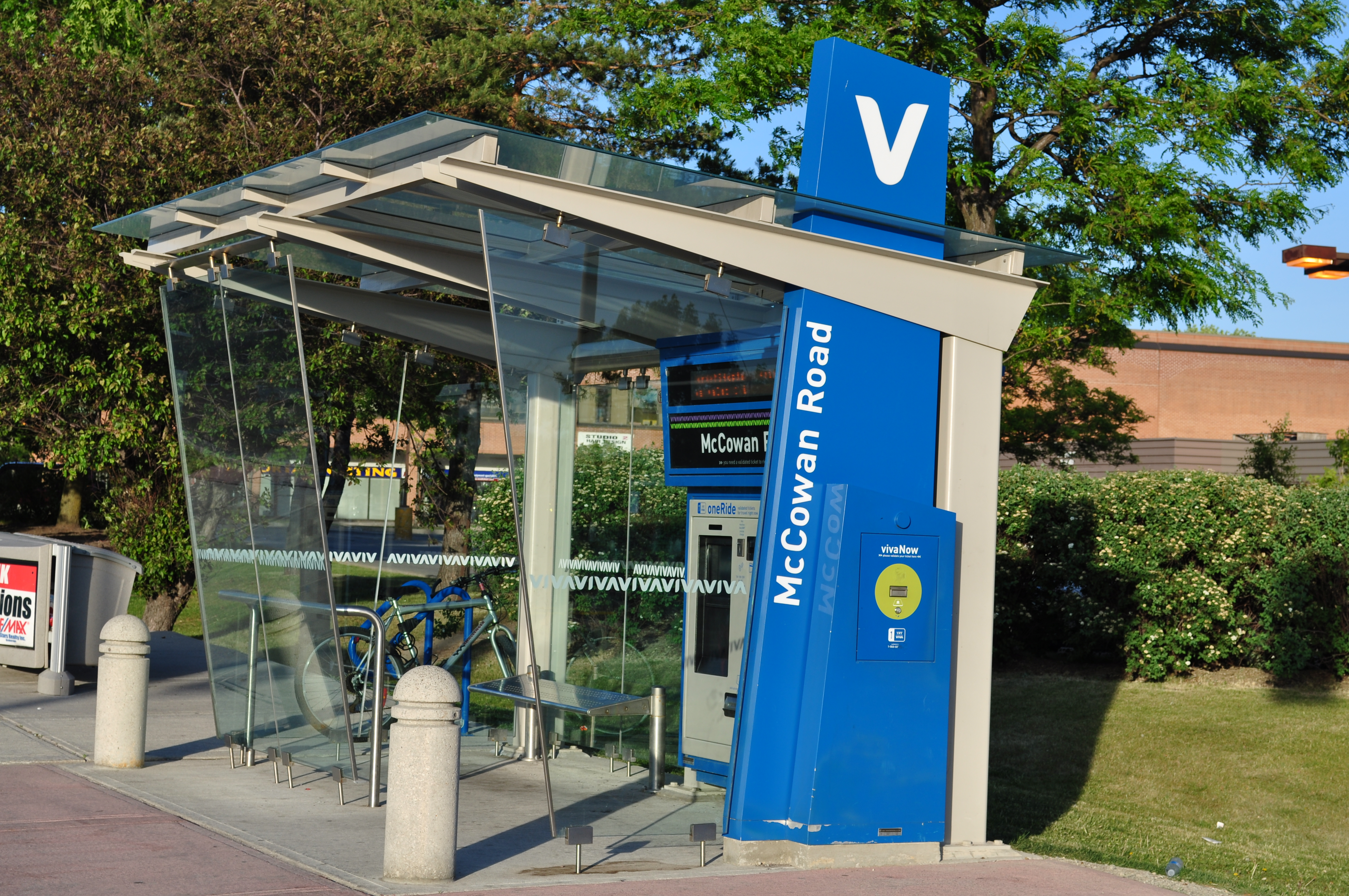 McCowan Road VIVA Station.